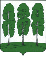 Coat of Arms of Beryozovsky rayon (Khanty-Mansyisky AO)